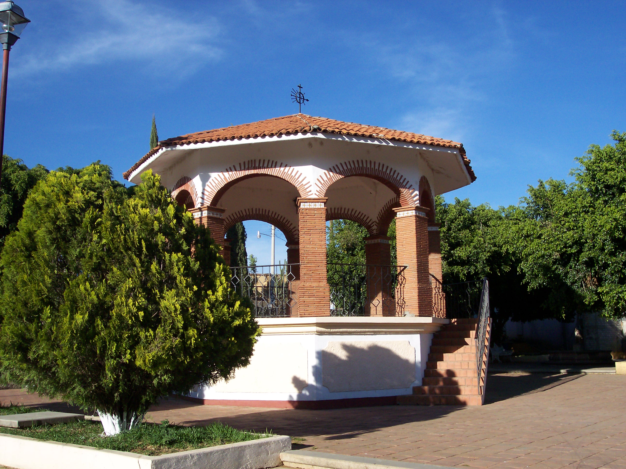 Main Kiosk in the Arrazola Town Oaxaca Mexico. This is a probe with commonist.